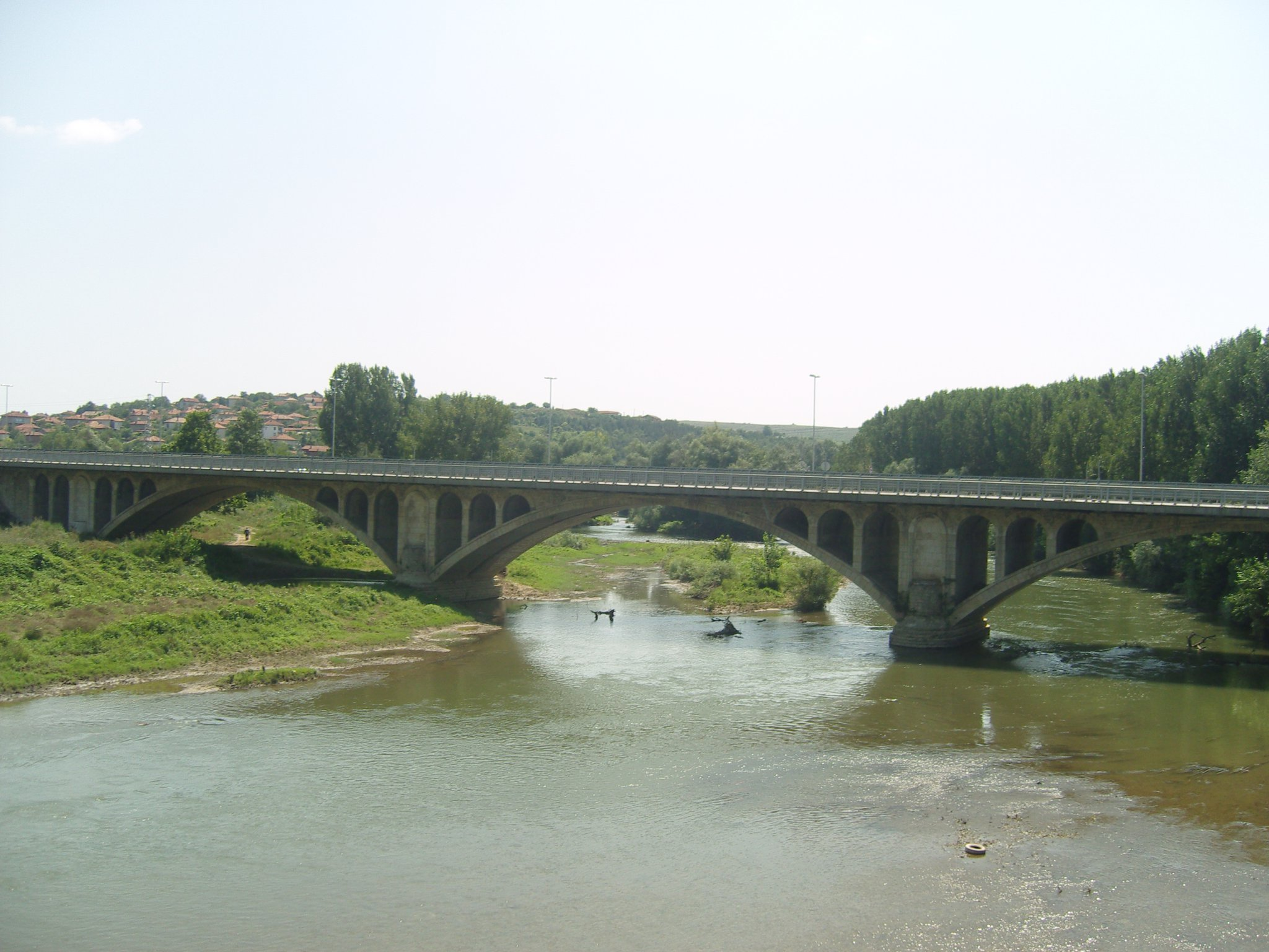 Road bridge over river Yantra in front of Byala Bridge by Kolyu Ficheto